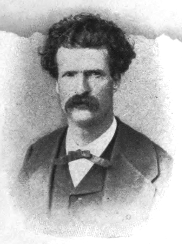 Scanned image from Boys Life of Mark Twain.